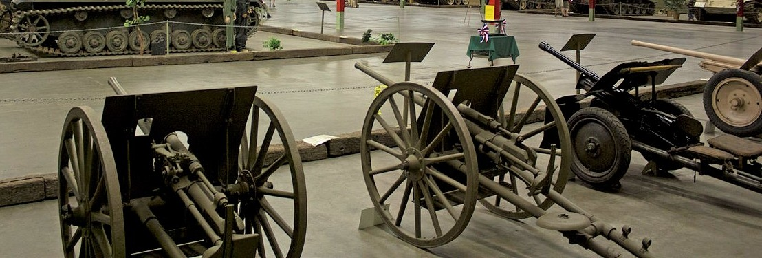 Artillery and AFVs in the American Armoured Foundation Museum